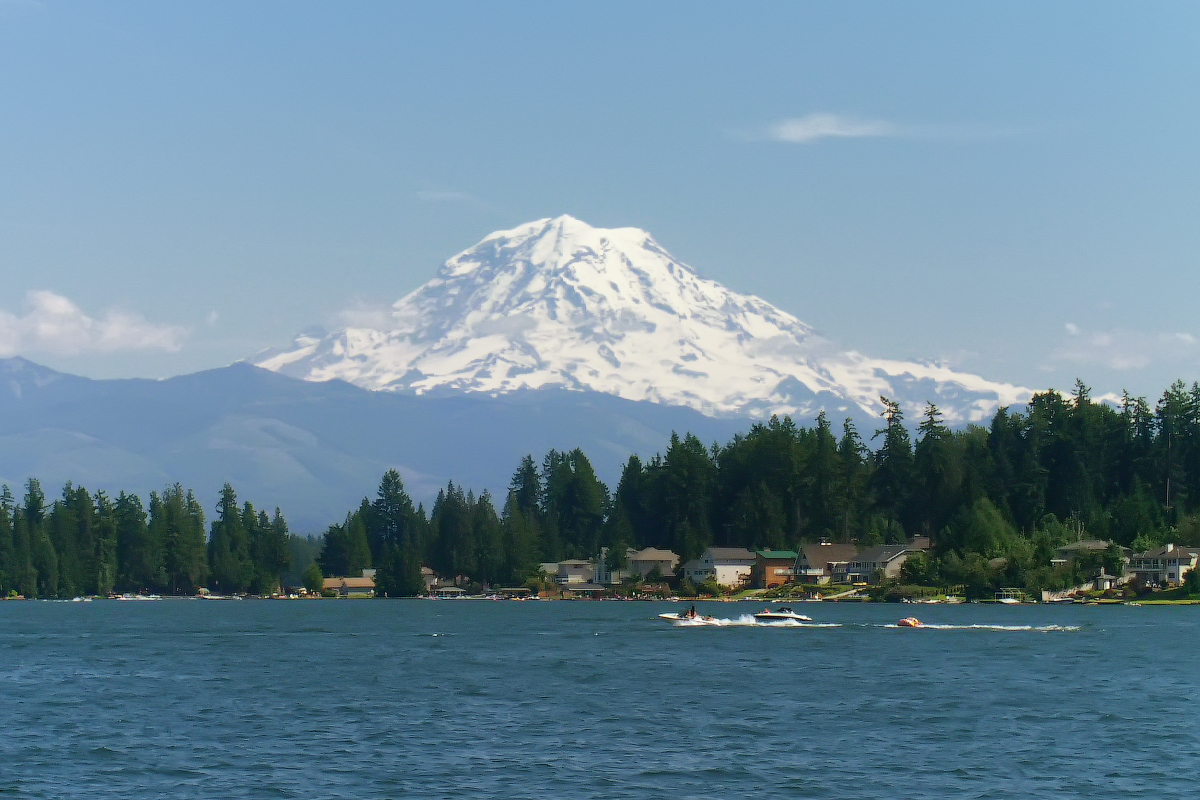 Mount Rainier and Lake Tapps. Taken by Steven Pavlov in 2005